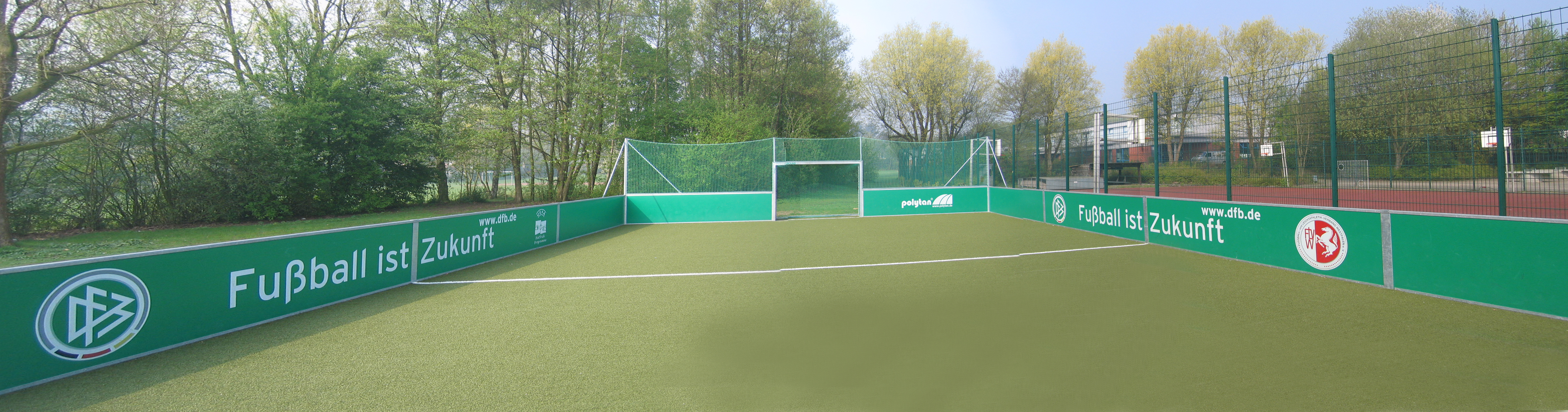 Soccer field in Bünde, District of Herford, North Rhine-Westphalia, Germany.